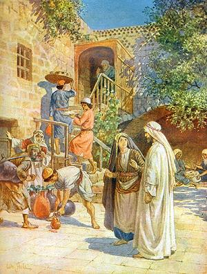 The Wedding at Cana (watercolour)